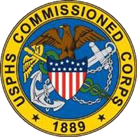 Seal of the United States Public Health Service Commissioned Corps (USPHSCC).